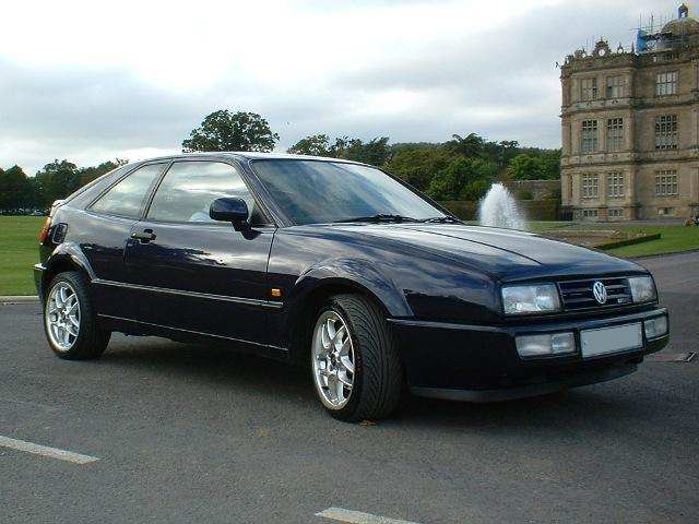 Volkswagen Corrado VR6 Storm parked outside Longleat House, Wiltshire, UK.